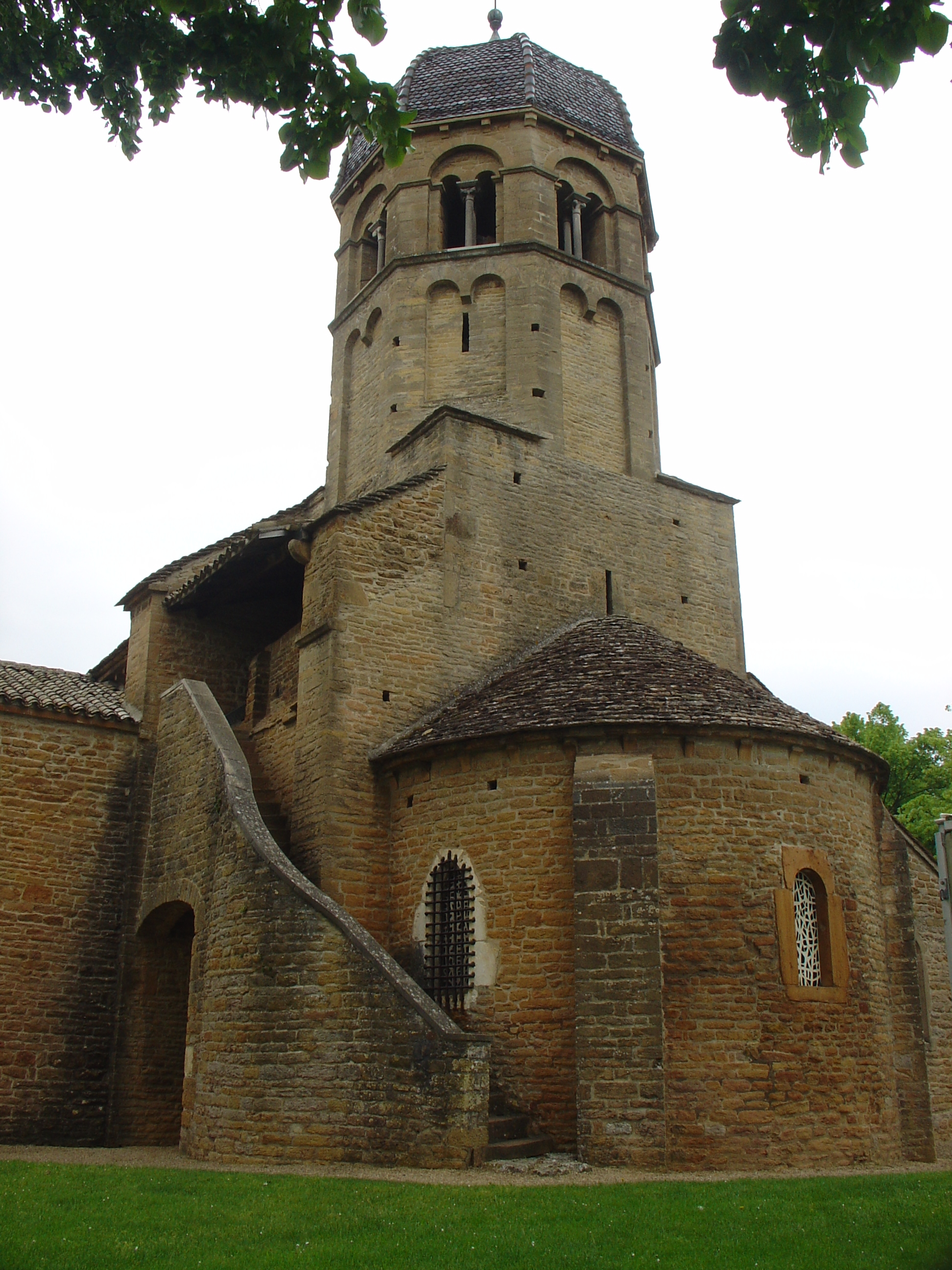 Sainte-Madeleine church in Charnay-lès-Mâcon, Saône-et-Loire (71), France